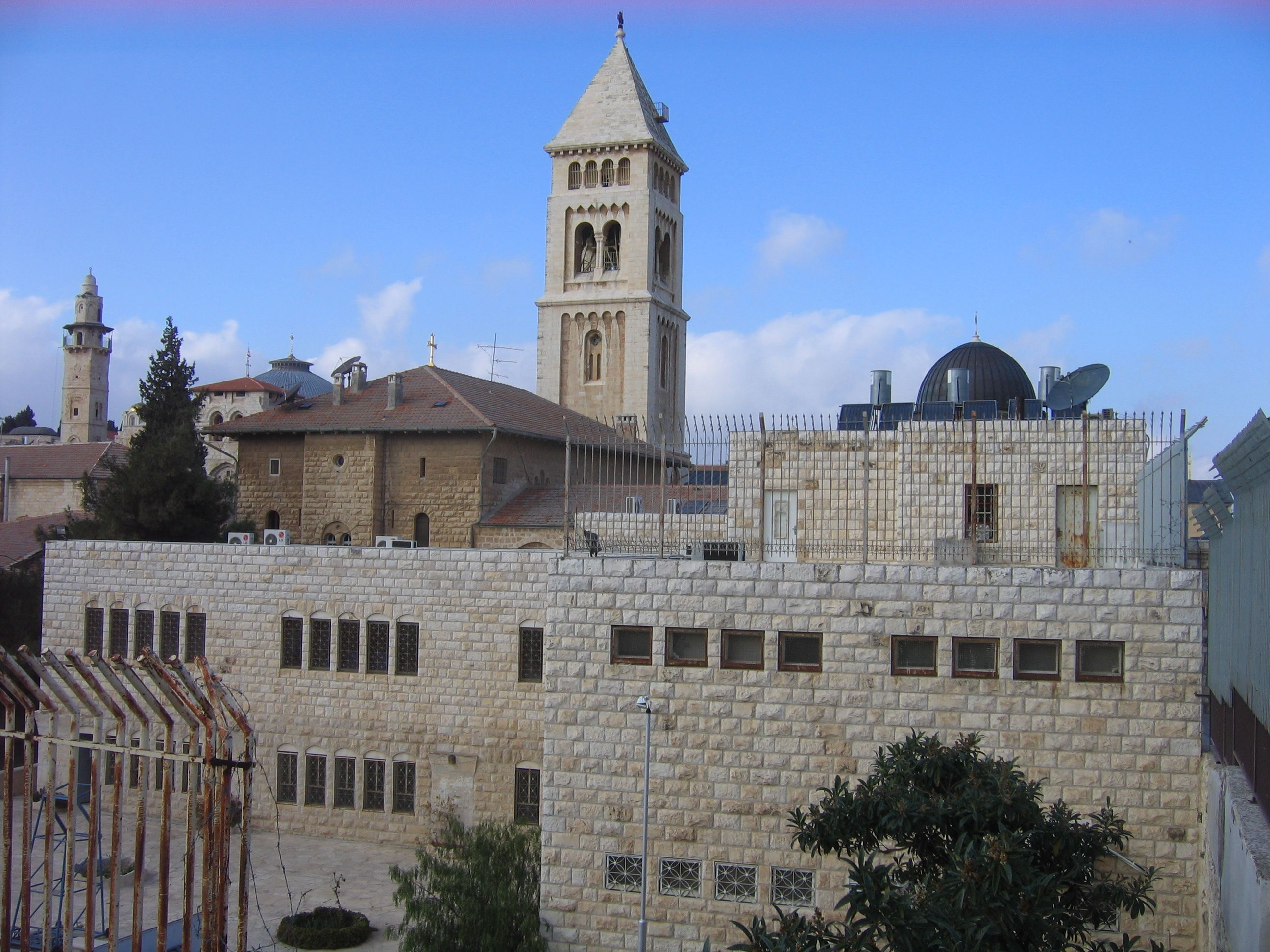 Background: Church of the Redeemer; middleground: Office of the provost; foreground: Luther-School, Jerusalem